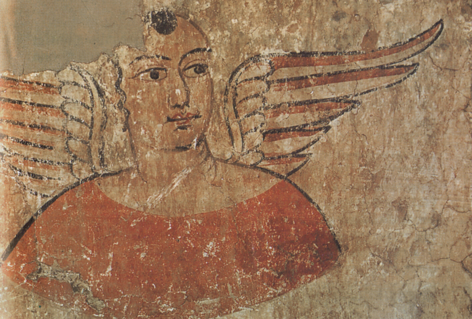 Male figure with wings, from the mural paintings signed Tita, in Miran near 3rd. century. New Dehli, National Museum